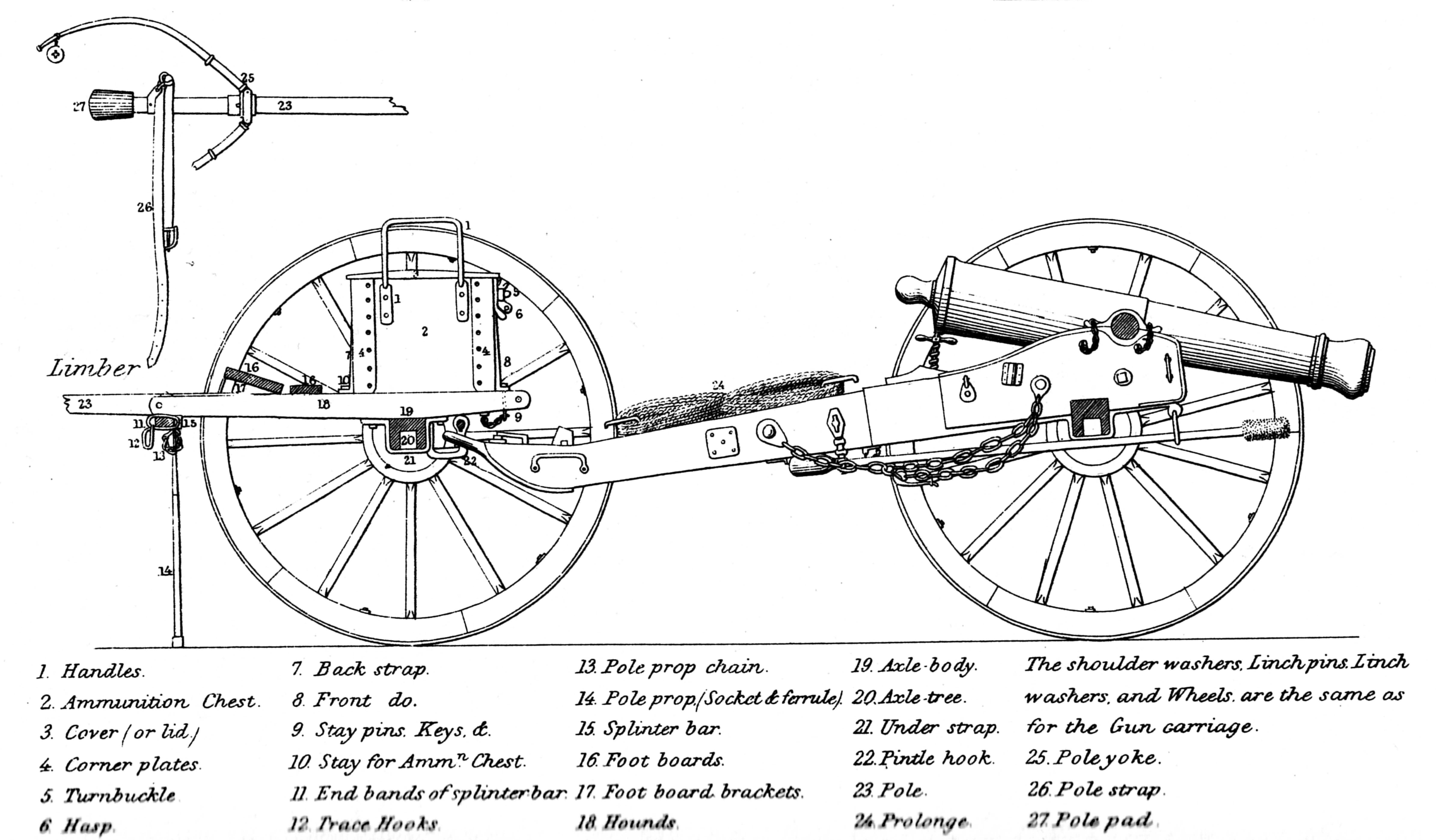 Line engraving of a field gun on a limber used in the American Civil War, side view.